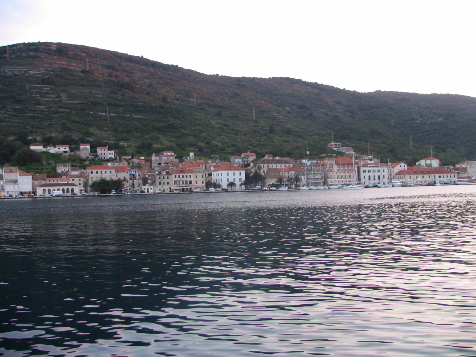 City of Vis (Croatia). Own photo.